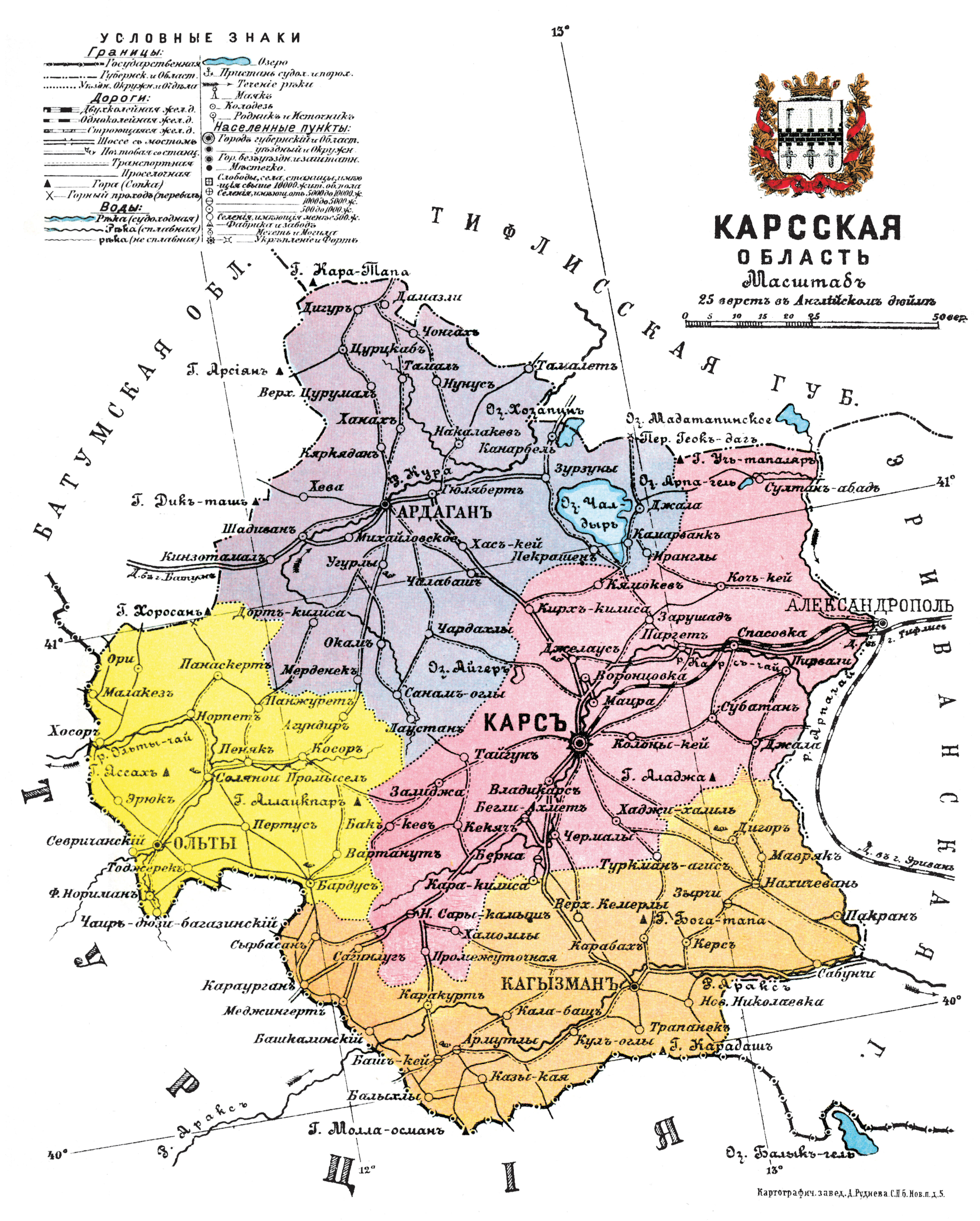 Administrative map of Kars Oblast: showing the main settlements.